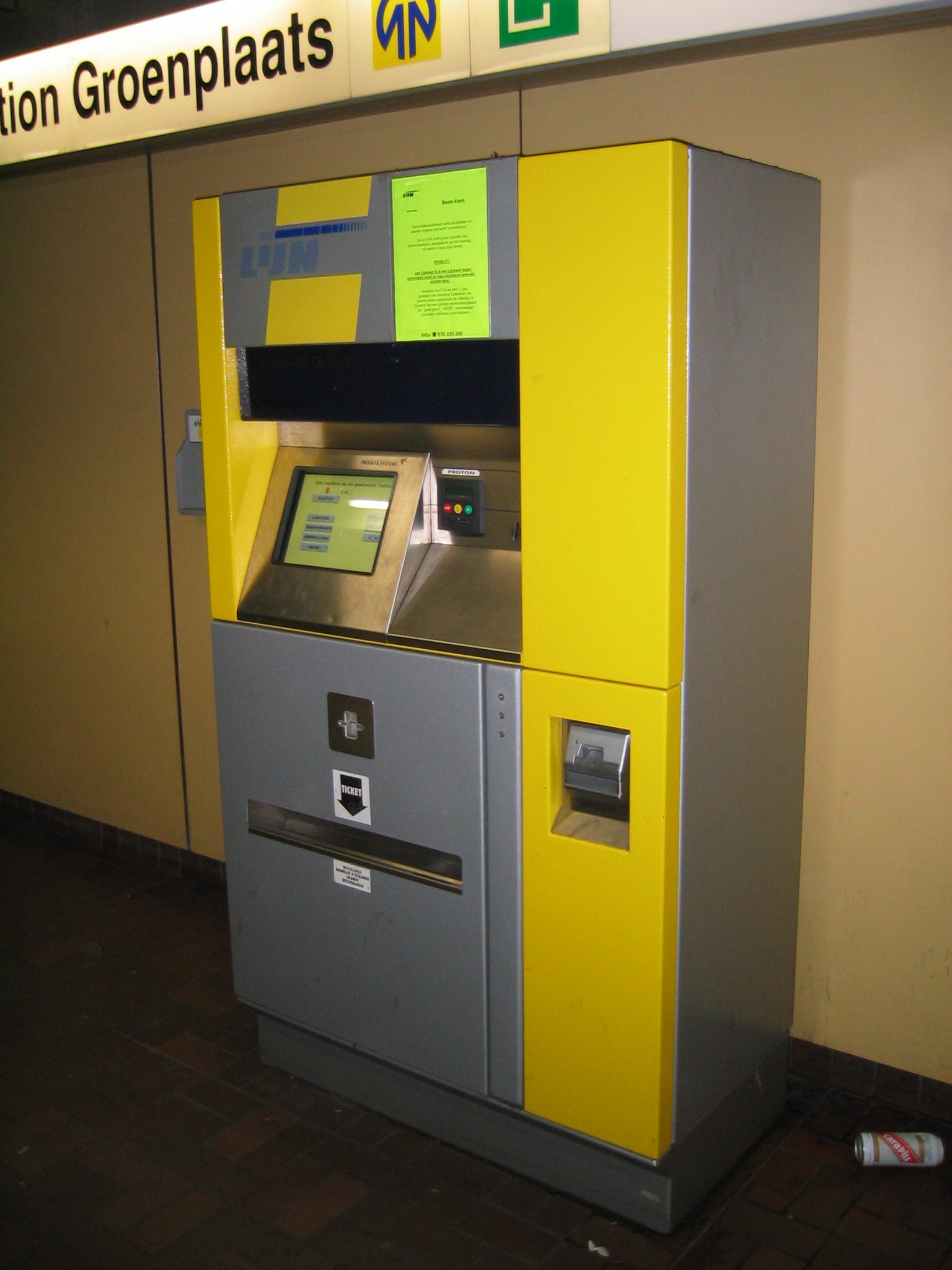 Picture shows a ticket vending machine in Groenplaats-Station in Antwerp/Belgium